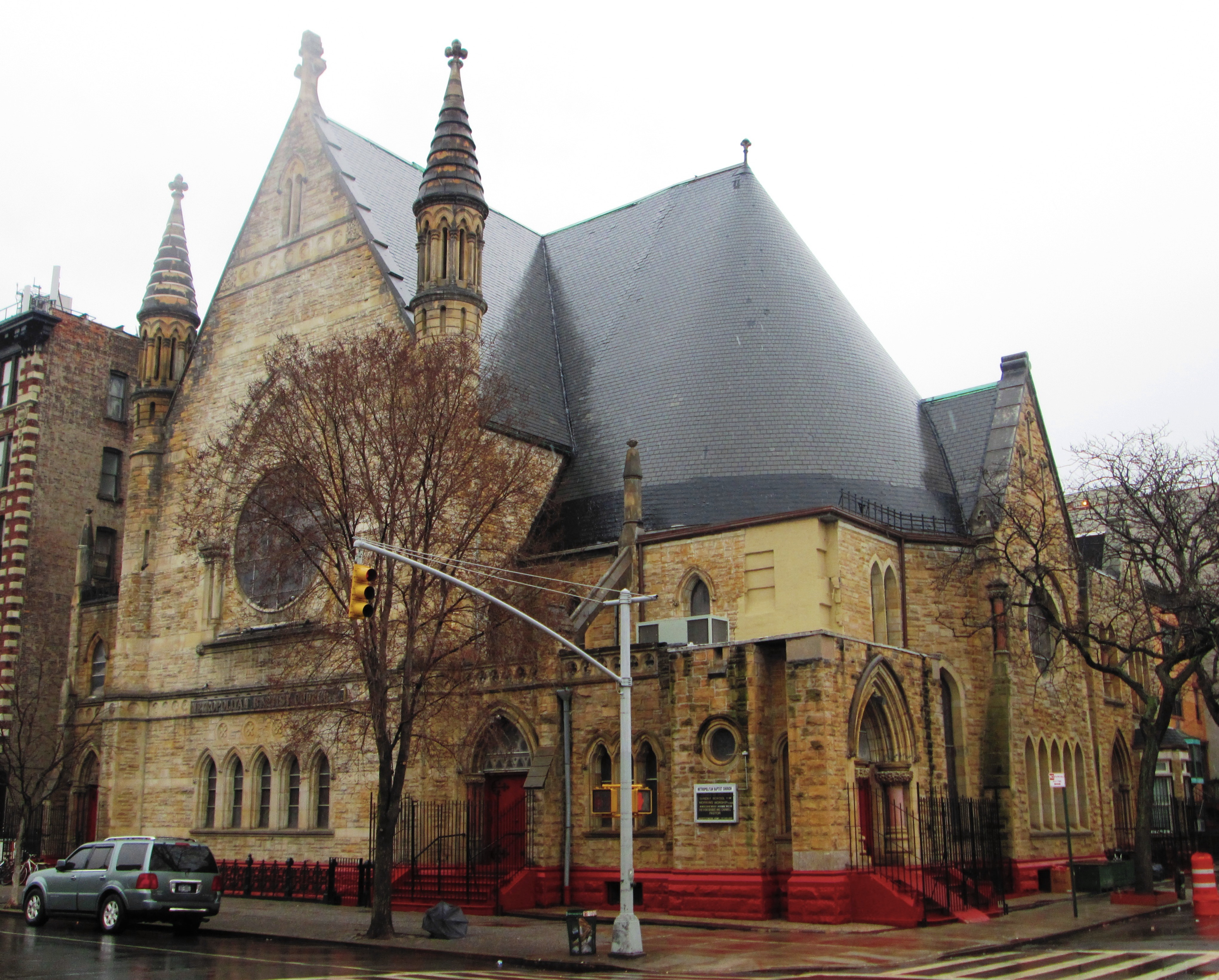 The Metropolitan Baptist Church, located at 151 West 128th Street between Adam Clayton Powell Jr. Boulevard and Lenox Avenue in the Harlem neighborhood of Manhattan, New York City, was originally built in two sections for the New York Presbyterian Church. The chapel and lecture room were built in 1884-85 and were designed by John R. Thomas, while the main sanctuary was constructed in 1889-90 and was designed by Richard R. Davis, perhaps following Thomas's unused design. (Source: Guide to NYC Landmarks (4th ed.))